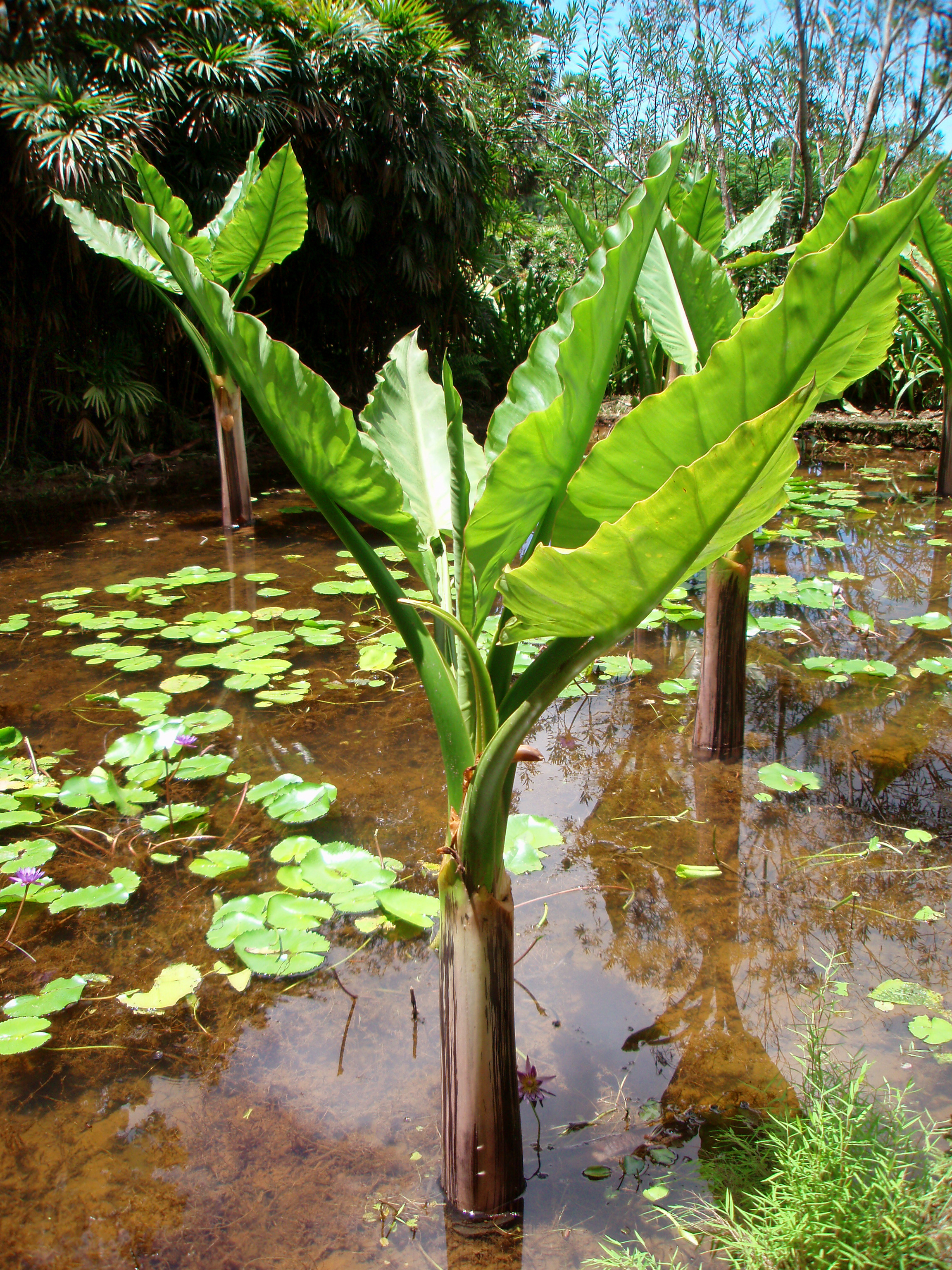 Giant Alocasia in Botanic garden Mont Fleuri in Victoria on Mahé Island. Photo by Anatoly Terentiev, 13 April 2007.